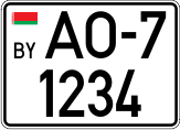 Vehicle licence plate from Belarus Type 3